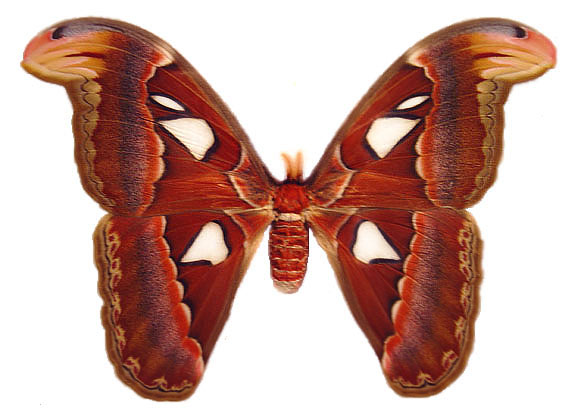 Photograph of a female Atlas moth (Attacus atlas) by Gregory Phillips. Taken in December 2003 and released under terms of the GNU FDL. Prepared specimen is approx. 23.5 cm (9.5 inches) wide by 16.5 cm (6.5 inches) high.